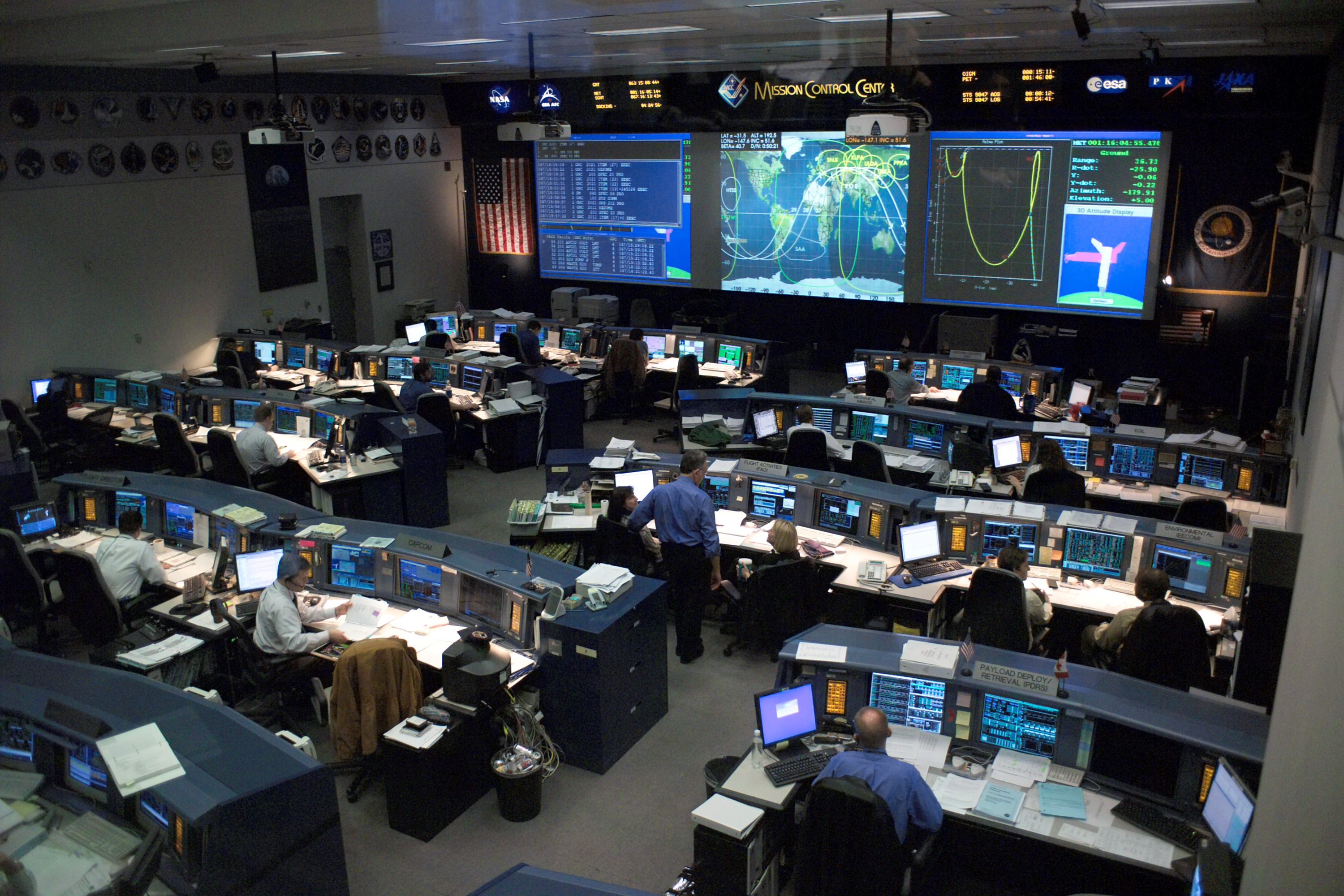 This overall view of the Shuttle (White) Flight Control Room (WFCR) in Johnson Space Center's Mission Control Center (MCC) was photographed during STS-114 simulation activities.